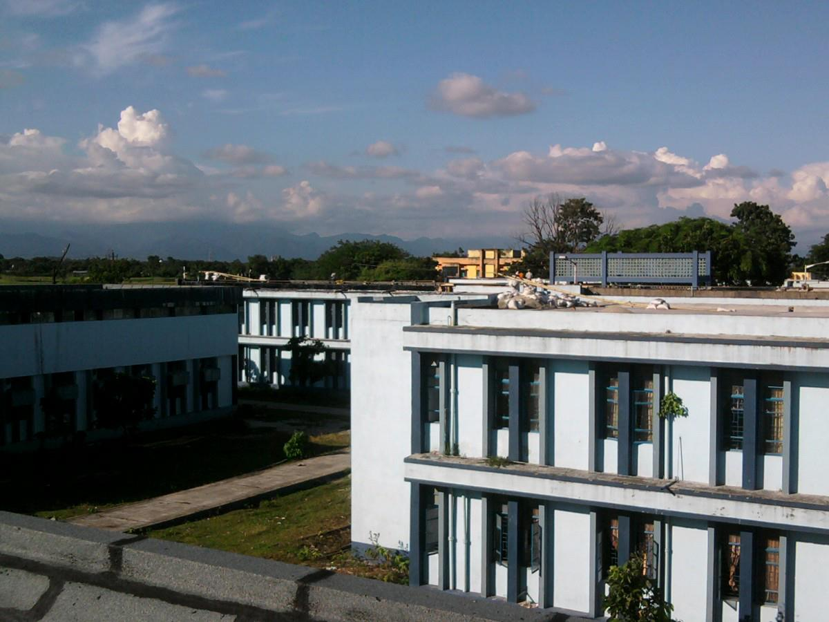 from terrace of anatomy department